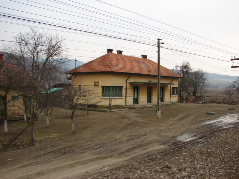 Former Train Station in Giurtelecu Şimleului, Sălaj County, Romania